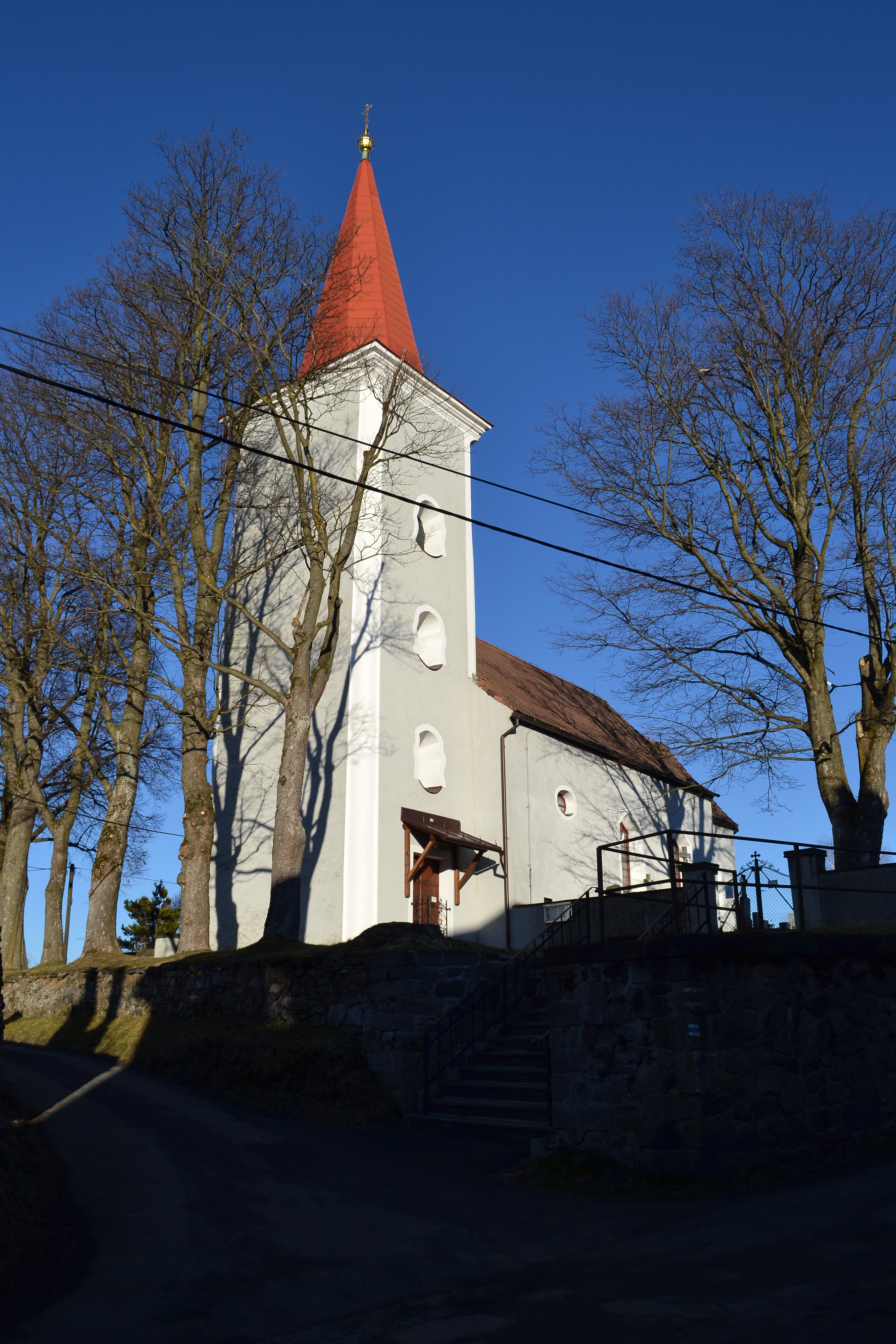 Church od Saint Wenceslaus in Čachrov, Klatovy district, Czech Republic.